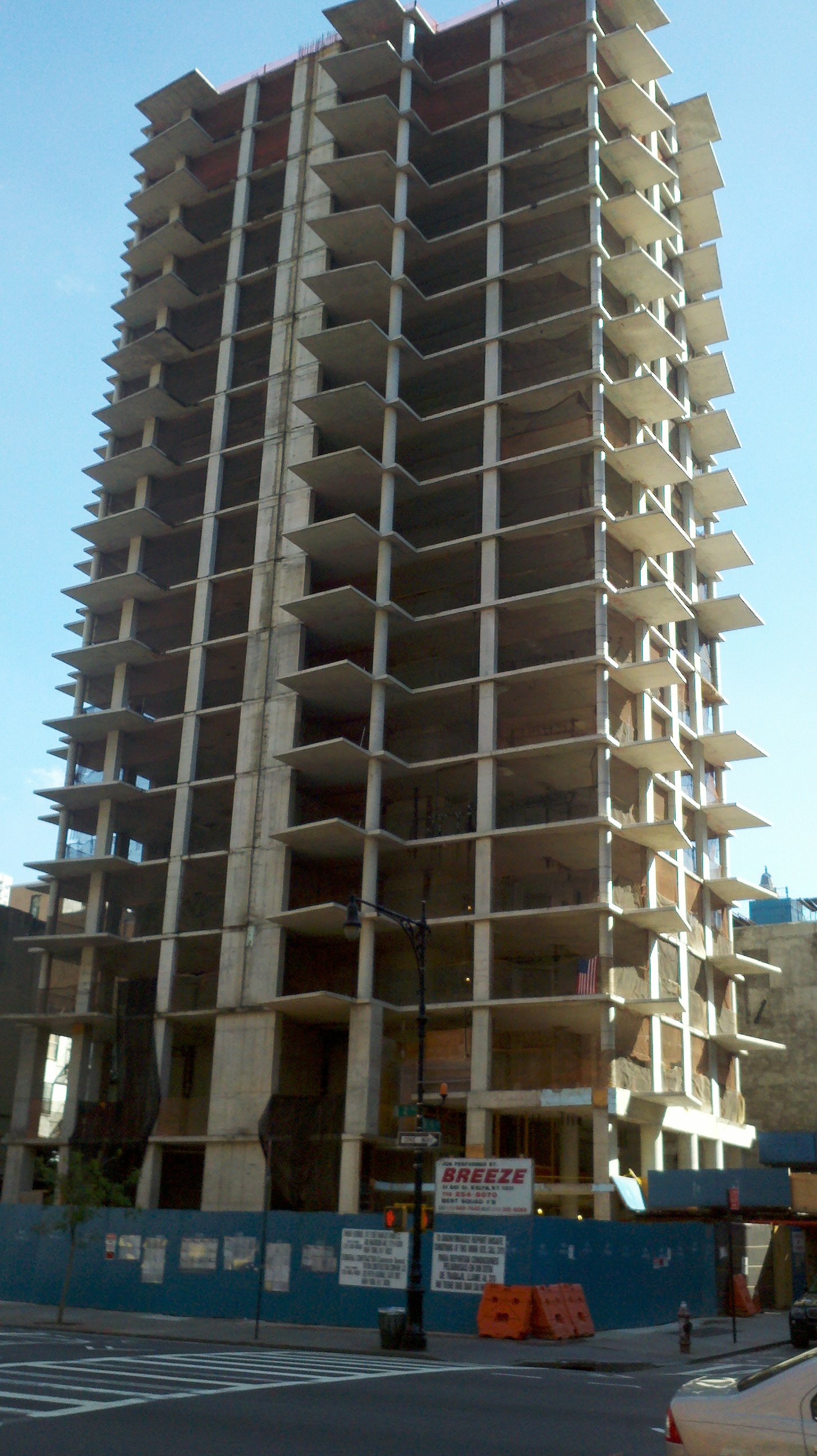 The skeletal remains of an unfinished apartment building at 303 East 51st Street. Construction was halted after a fatal crane collapse on March 15, 2008.